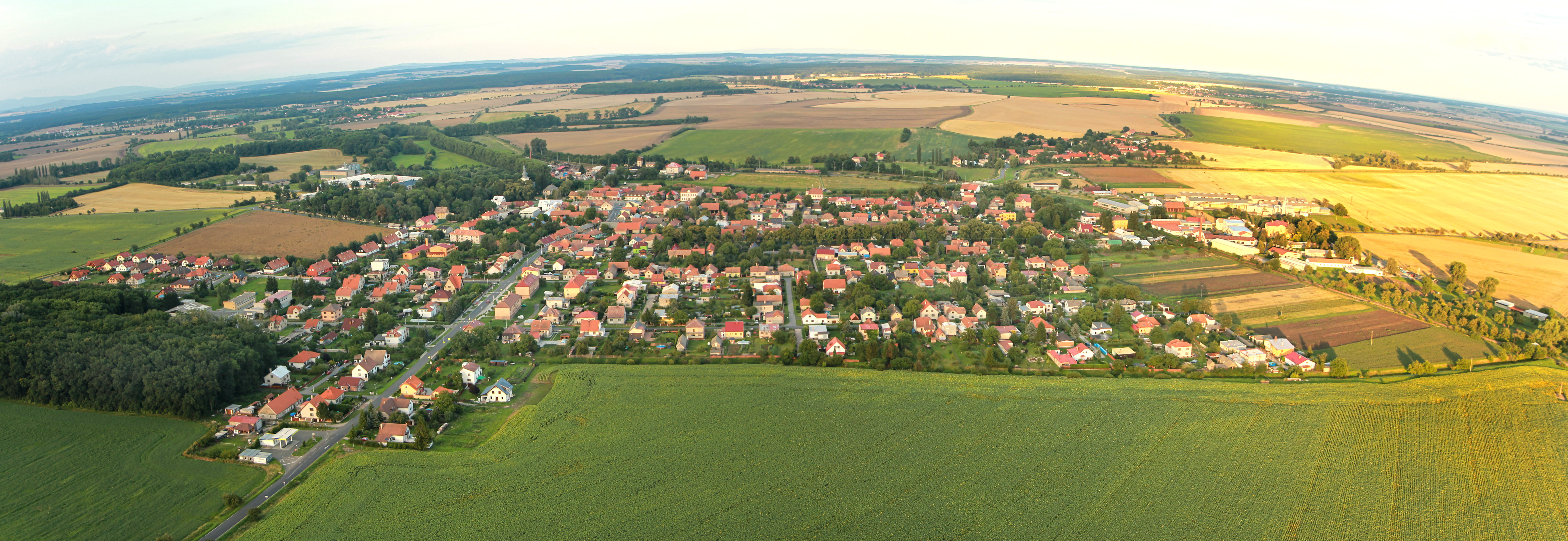 Panorama of Křinec village, Czech Republic; west view